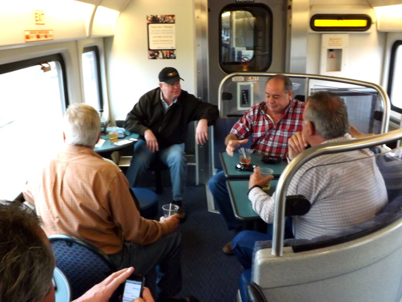 Passengers chatting in the lounge car of an Amtrak San Joaquin, January 2014